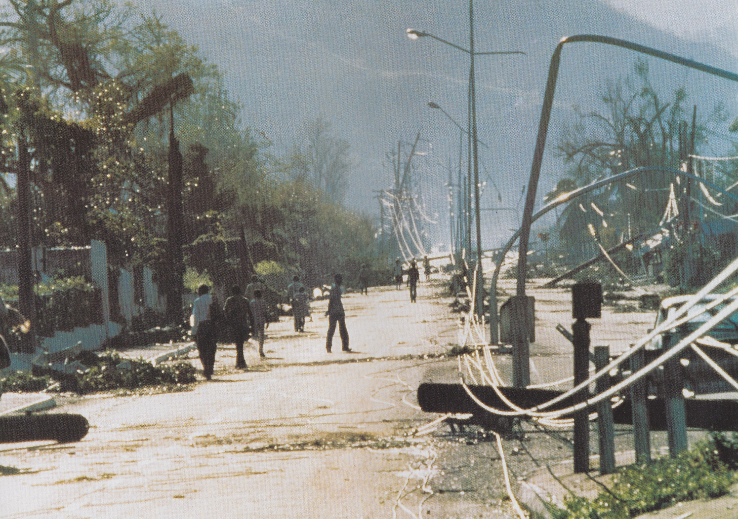 damage after hurricane Gilbert struck Jamaica on sept 12 1988